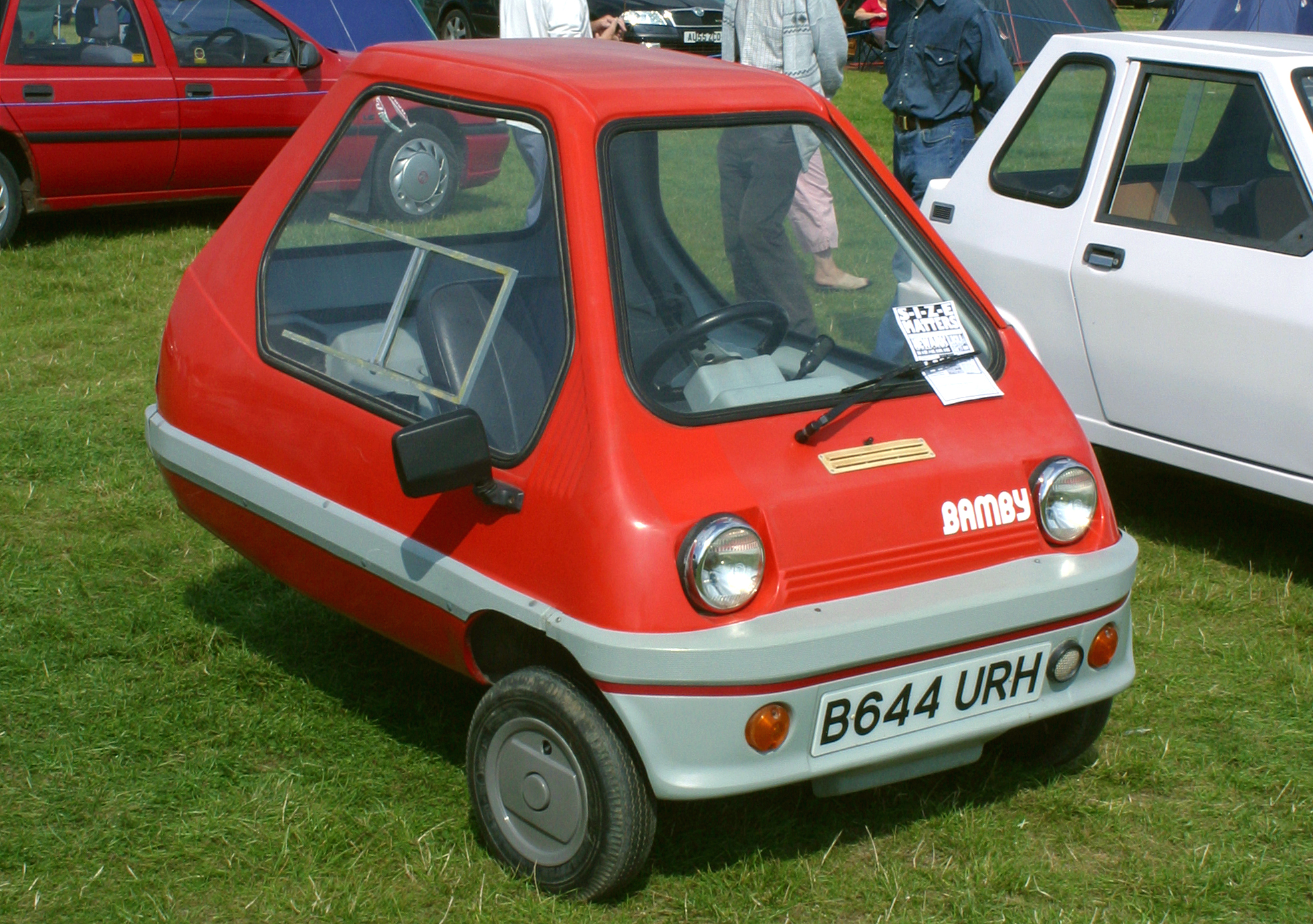 1984 Bamby microcar at the 2007 National Microcar Rally at Huntingdon Racecourse, Cambridgeshire, England